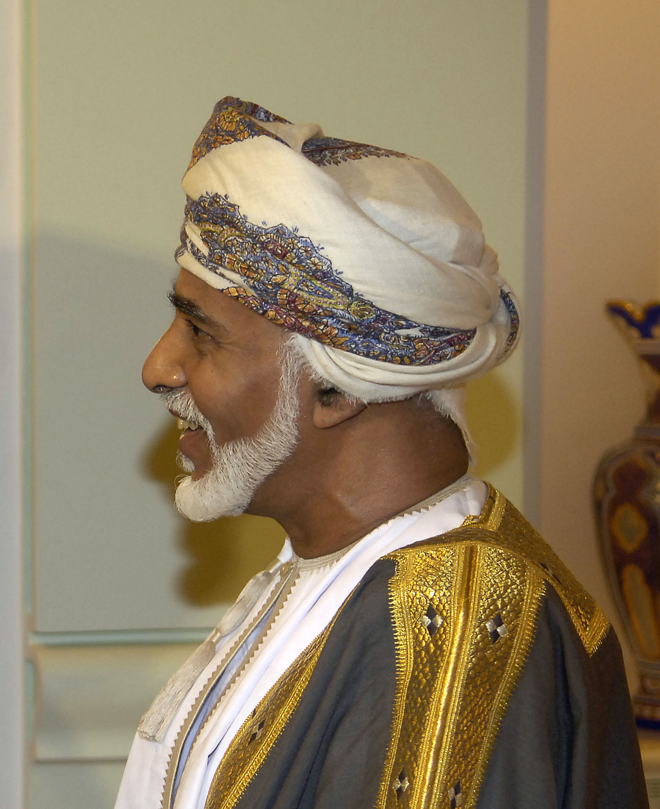 Omani Sultan Qaboos bin Sa'id welcomes U.S. Defense Secretary Robert M. Gates at the Bait Al-Barakah Palace outside Muscat, Oman, April 5, 2008. Gates was in Muscat to discuss defense issues with top Omani officials.